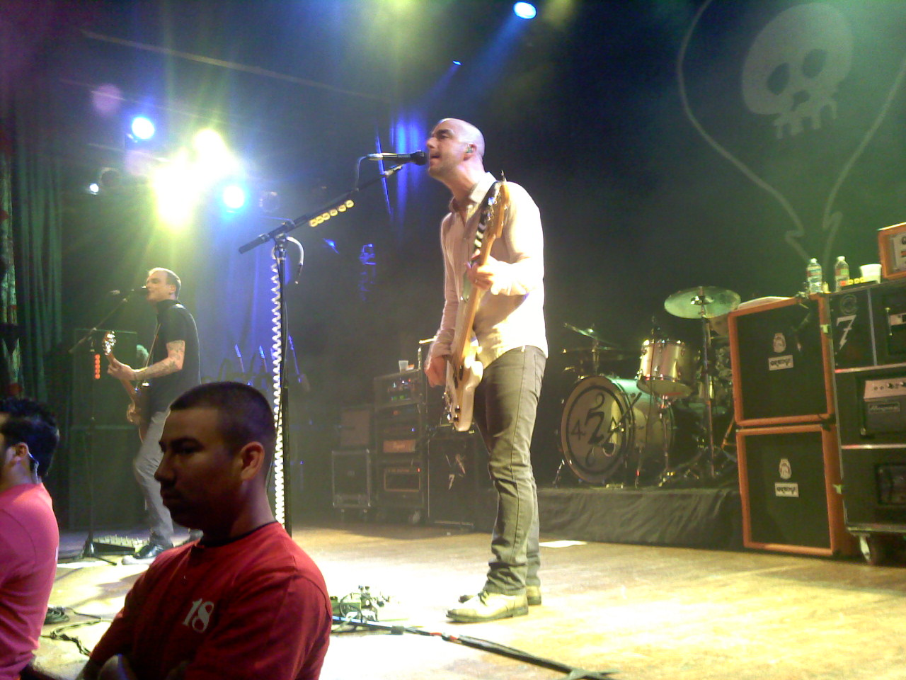 Alkaline Trio performing at the House of Blues in Hollywood, Los Angeles, California, February 17, 2010 on the This Addiction tour. Left to right: Matt Skiba, Dan Andriano, and Derek Grant (behind drum kit).